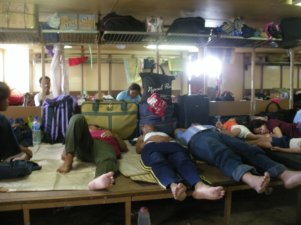 Pelni shipping (Indonesia): the economic class in the KM Awu